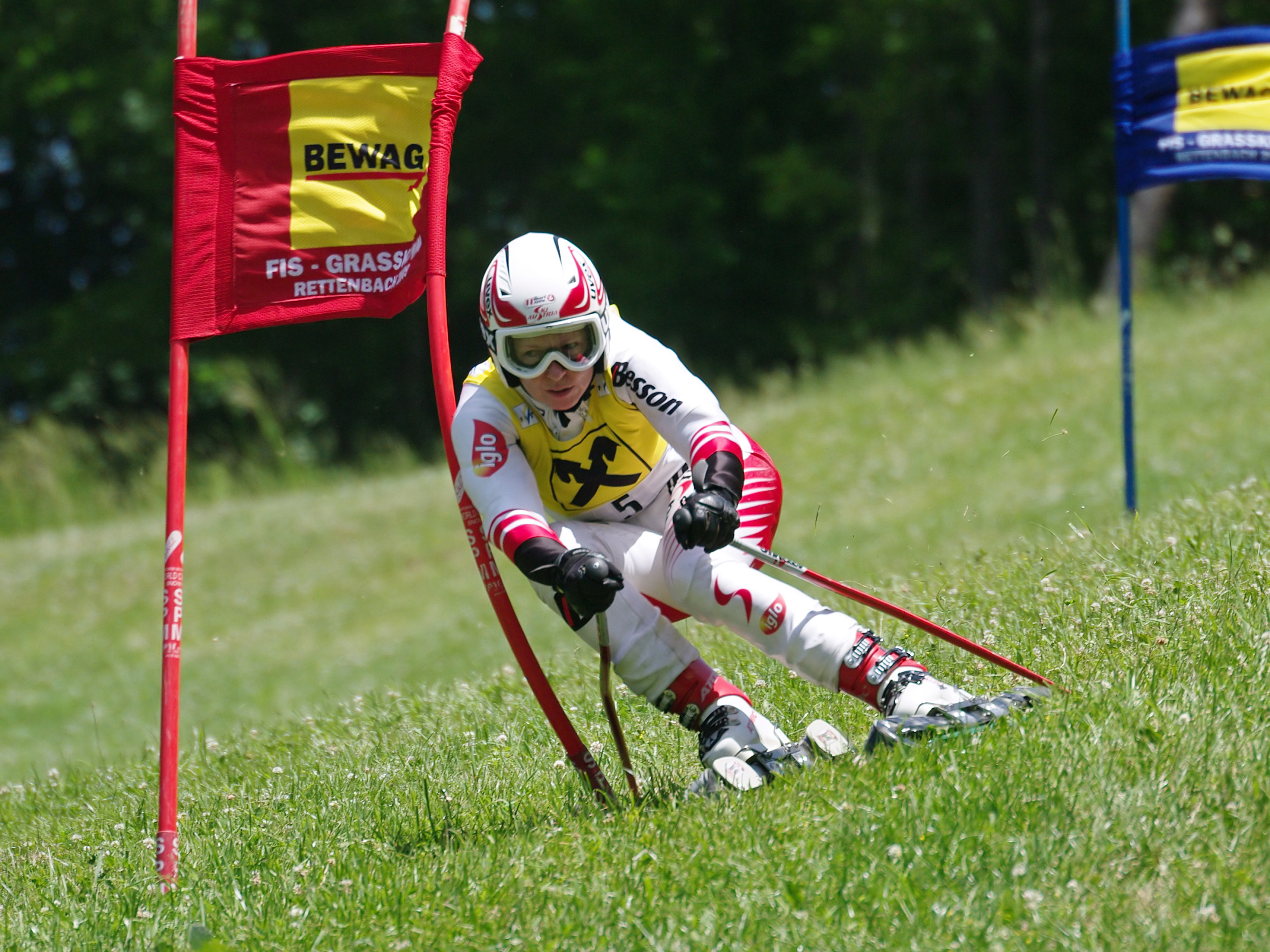 Austrian Grass skier Ingrid Hirschhofer in the second Giant slalom run at the Austrian Grasski Championships 2010 in Rettenbach.